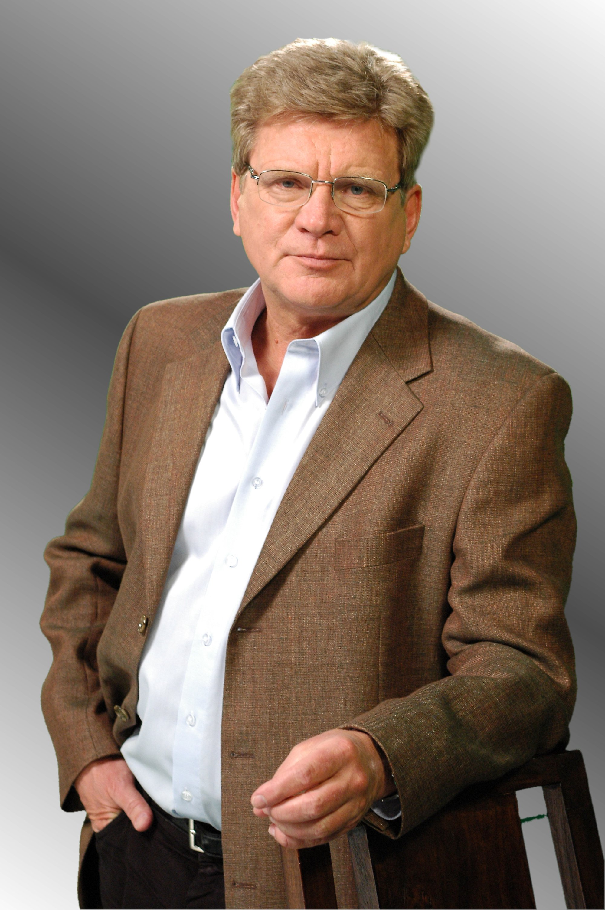 Zoltán Csáky film director